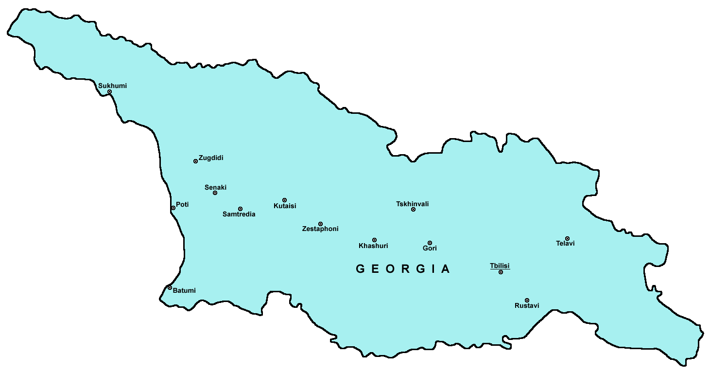 Map of main cities in Georgia.